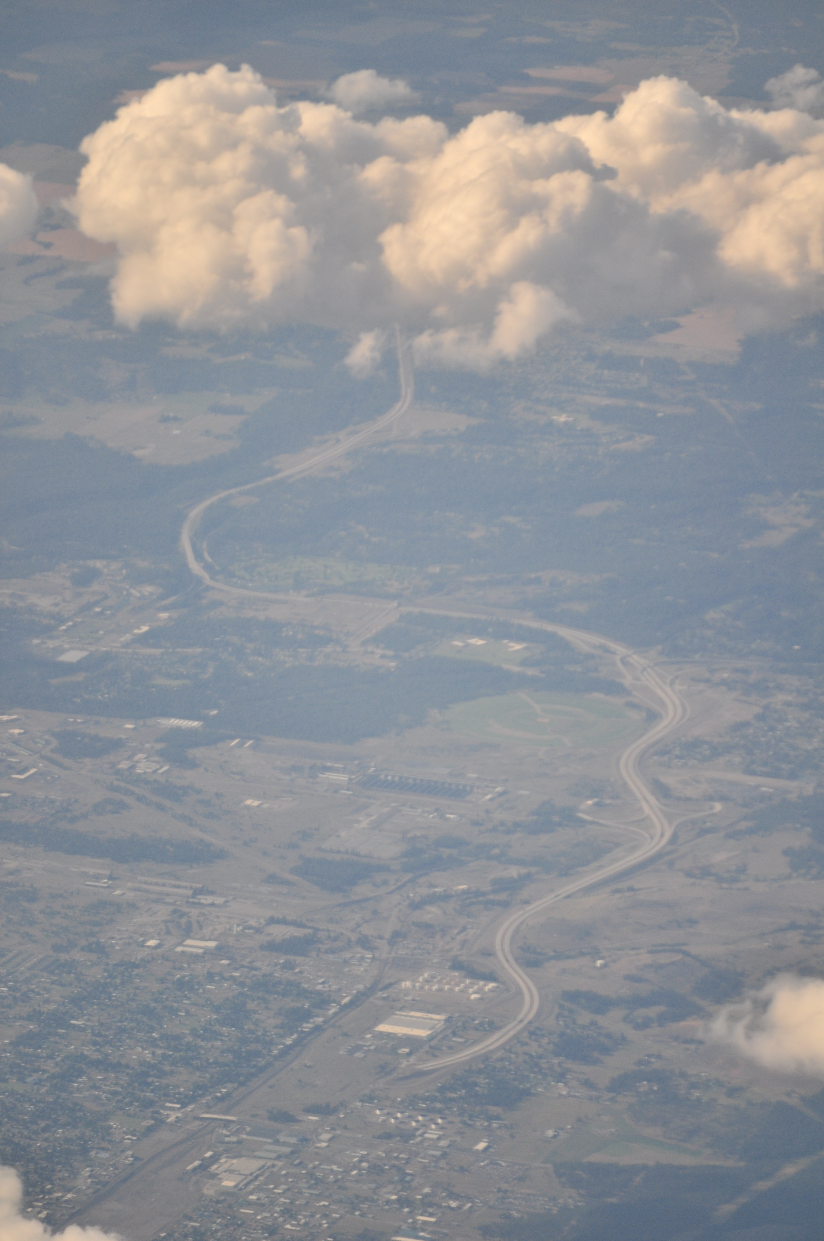 Aerial view of U.S. Route 395 just north of Spokane, Washington, U.S., from slightly east of south.